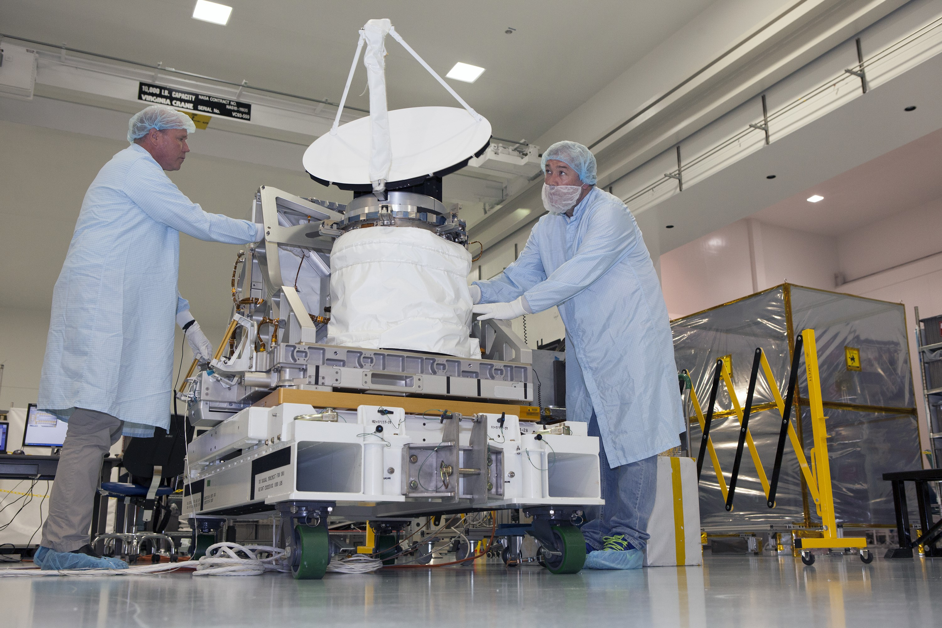 Personnel from NASA's Jet Propulsion Laboratory JPL in California reposition NASA's International Space Station-RapidScat during testing of its rotating radar antenna in the Space Station Processing Facility at NASA's Kennedy Space Center in Florida. From left are RapidScat project manager John Wirth and JPL flight technician Kieran McKay. Built at JPL, the radar scatterometer is the first scientific Earth-observing instrument designed to operate from the exterior of the space station. It will measure Earth's ocean surface wind speed and direction, providing data to be used in weather and marine forecasting. ISS-RapidScat will be delivered to the station on the SpaceX-4 commercial cargo resupply flight targeted for August 2014.